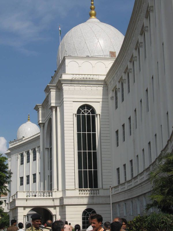 Taken by Venky (Venkat) Uploaded to Wikipedia by user:nikkul